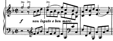 Work was originally published in 1895.